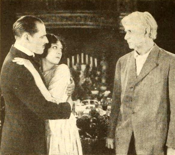 Still from the American drama film After the Show (1921) with Jack Holt, Lila Lee, and Charles Ogle, on page 60 of the November 1921 Photoplay.